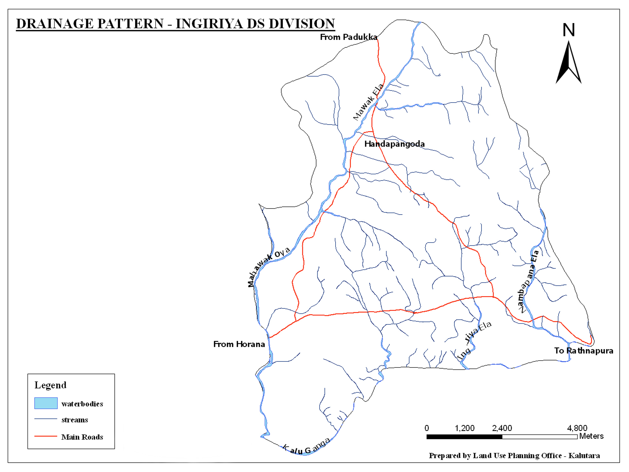 Ingiriya City Drainage Map